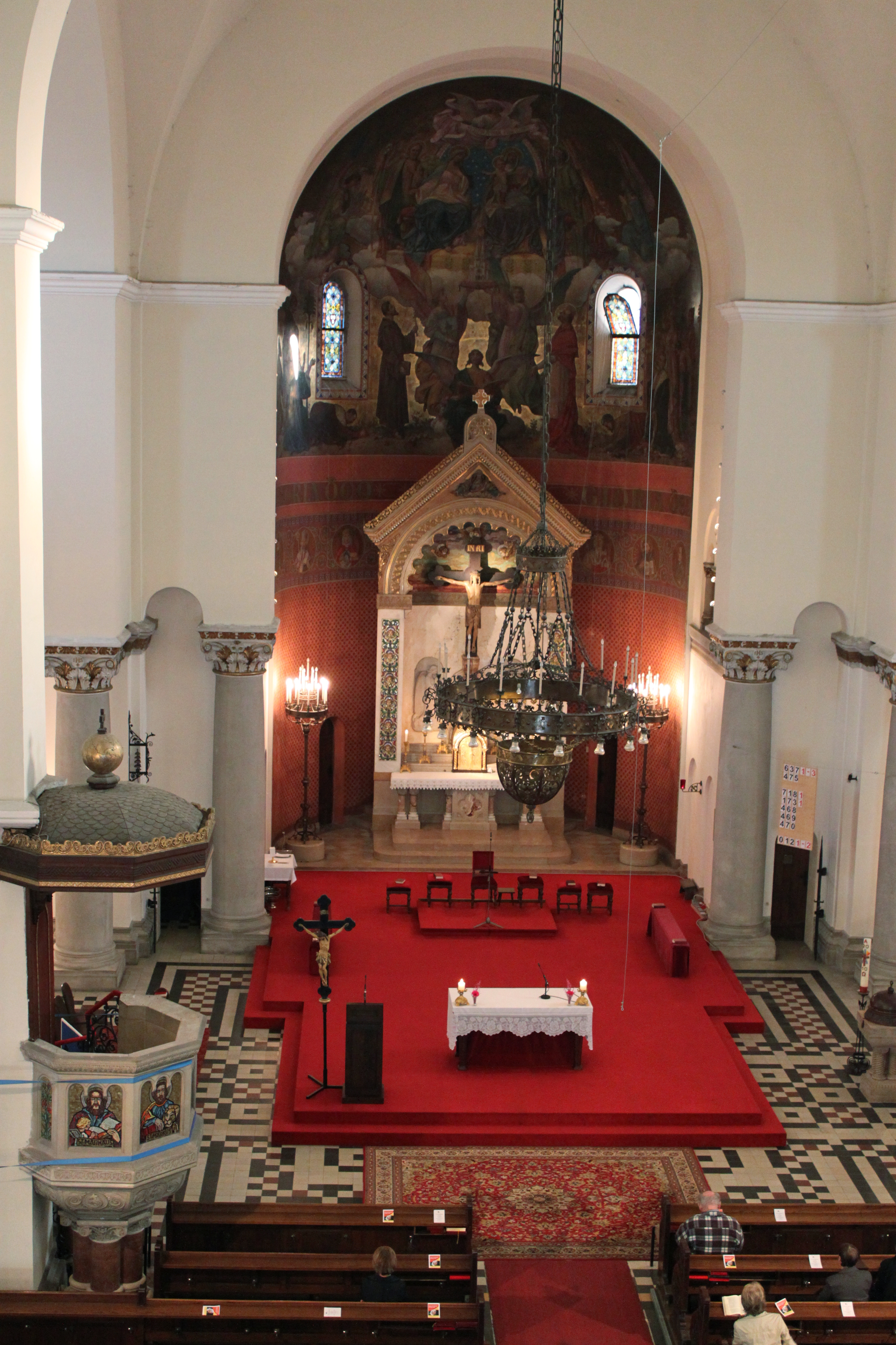 Interior room of St. Anne Parish Church in the 14th district of Vienna